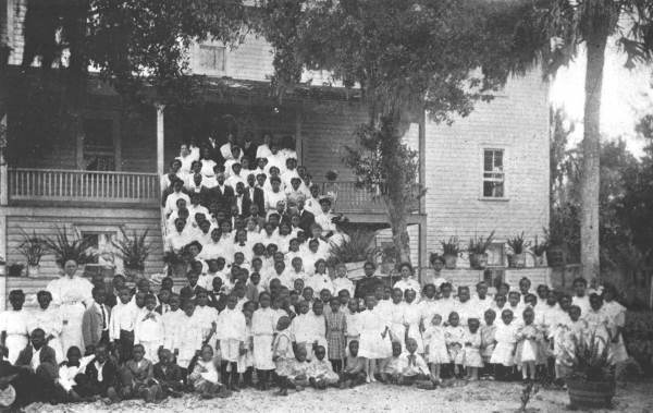 Group photo of students at the Literary and Industrial Training School for Negro Girls, taken about 1919. Source: Photographs of Mary McLeod Bethune, her school, and family from the Florida State Archives Photographic Collection. Retrieved October 22, 2007.